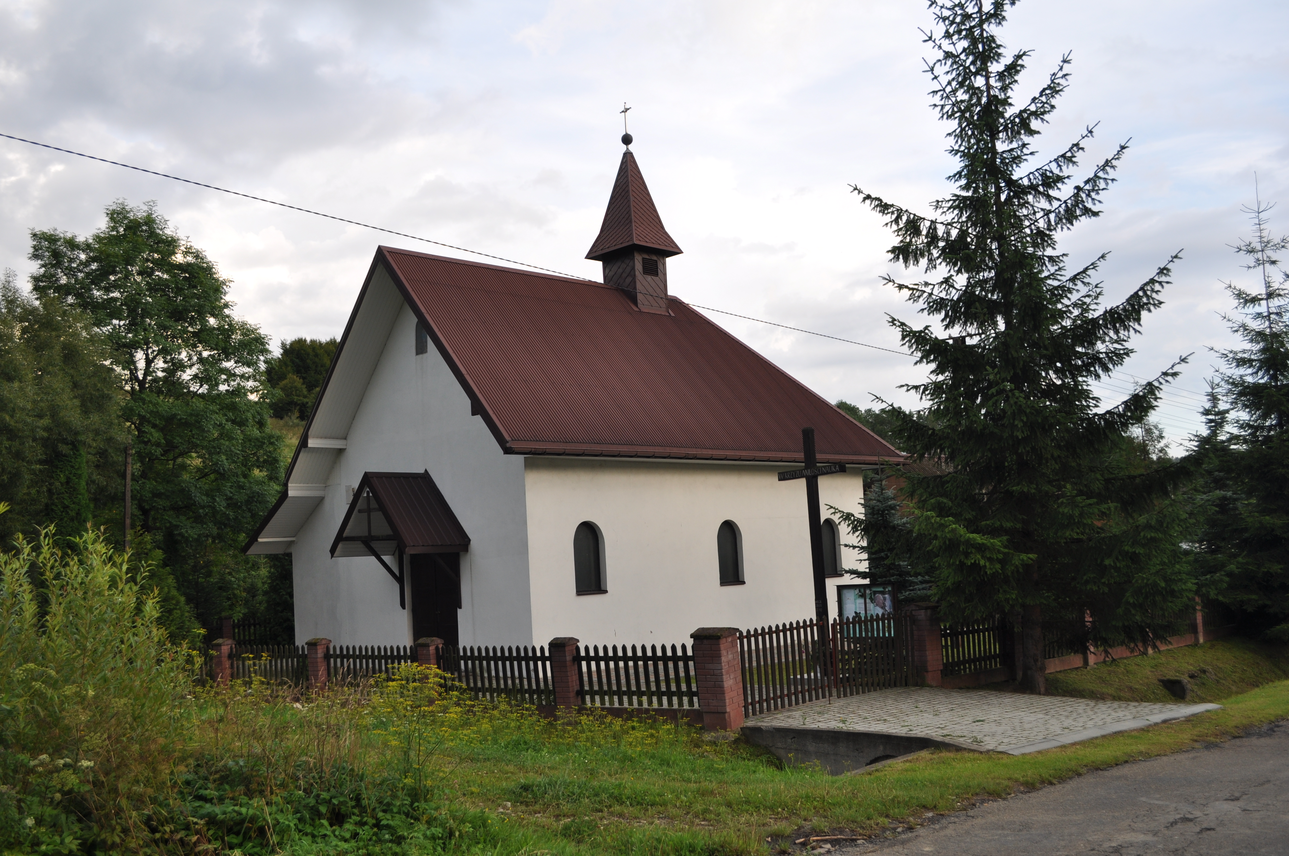 Church in Morochów